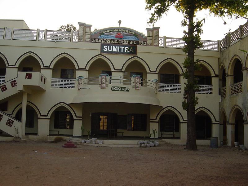 This is full frontal view of Allur School and College. Taken the picture with personal camera. pinnacle view of allur school Contents 1 Summary 2 See also 3 Licensing 4 Original upload log Summary This is full frontal view of Allur School and College. Taken the picture with personal camera. See also pinnacle view of allur school